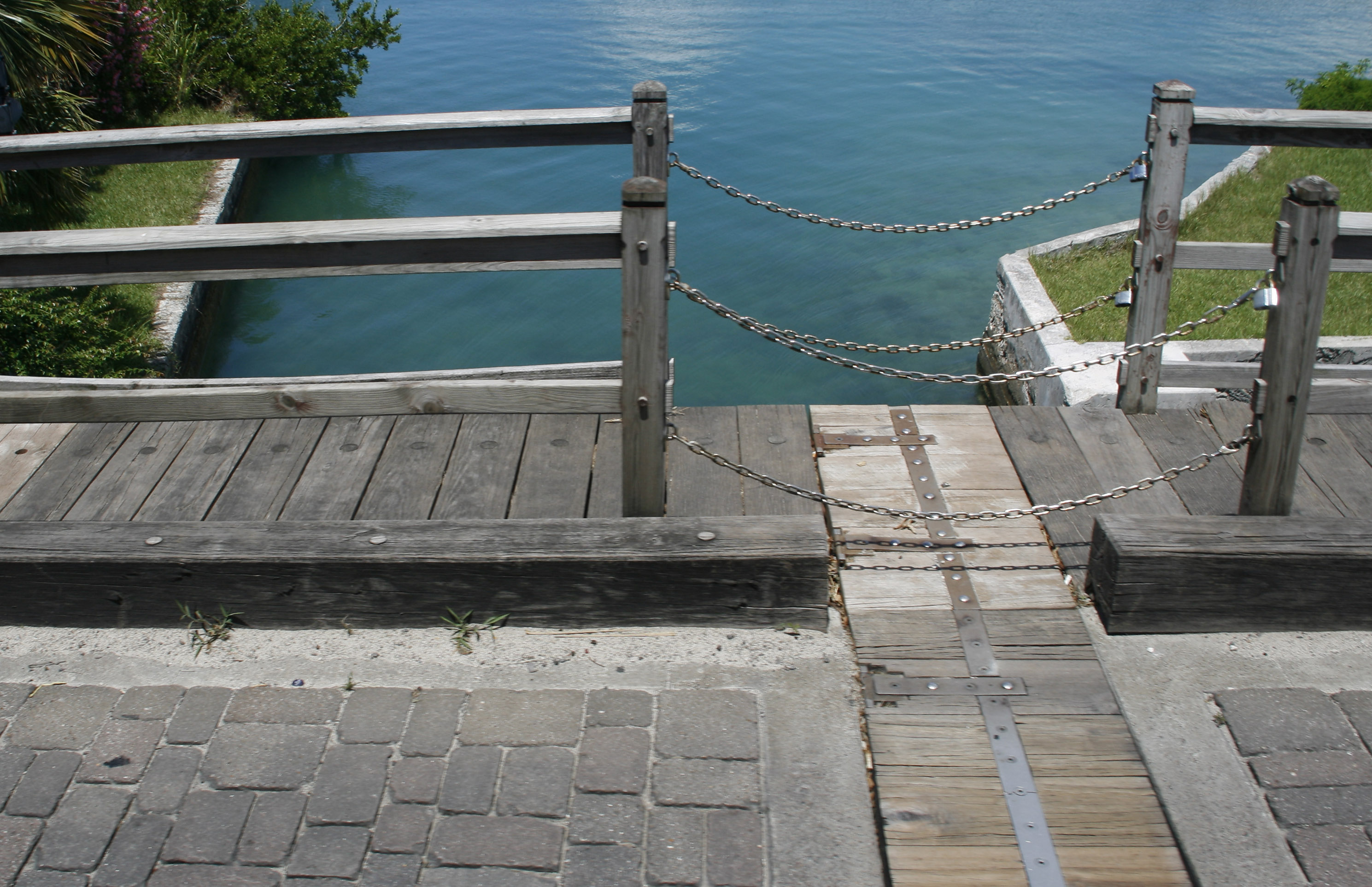 Built in 1620, this drawbridge connects the main island to Somerset Island. It?s reputedly the smallest drawbridge in the world and is barely wide enough to permit the mast of a sailboat to pass through.